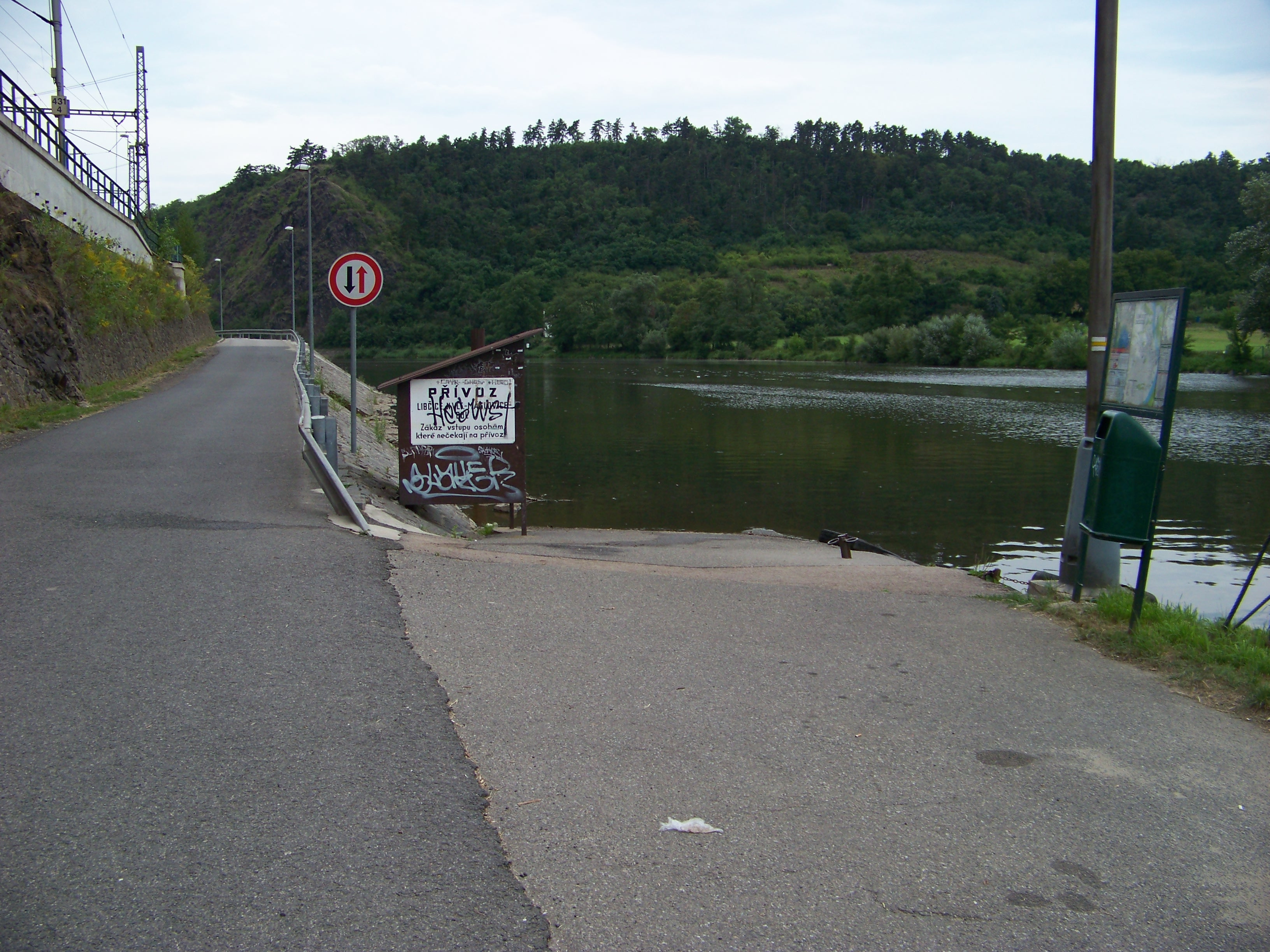 Libčice nad Vltavou, Prague-West District, Central Bohemian Region, the Czech Republic. Vltavská street, a ferry.